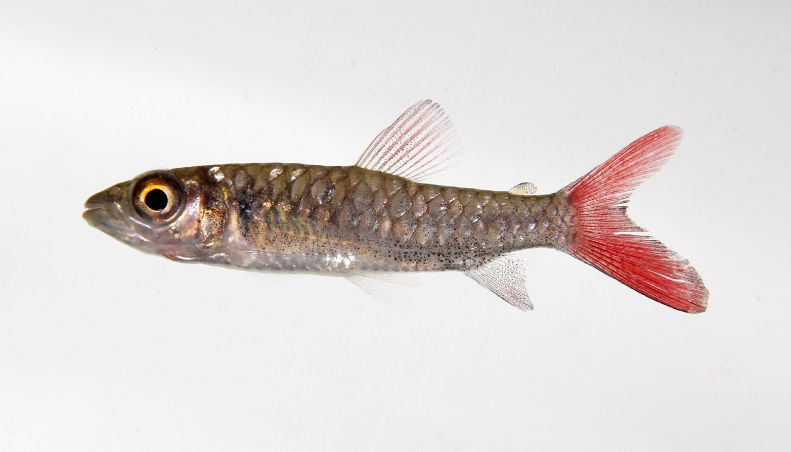 Chalceus sp.